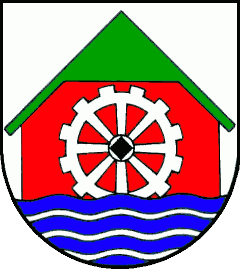 Coat of arms of the municipality Mühlenbarbek in Schleswig-Holstein, Germany.